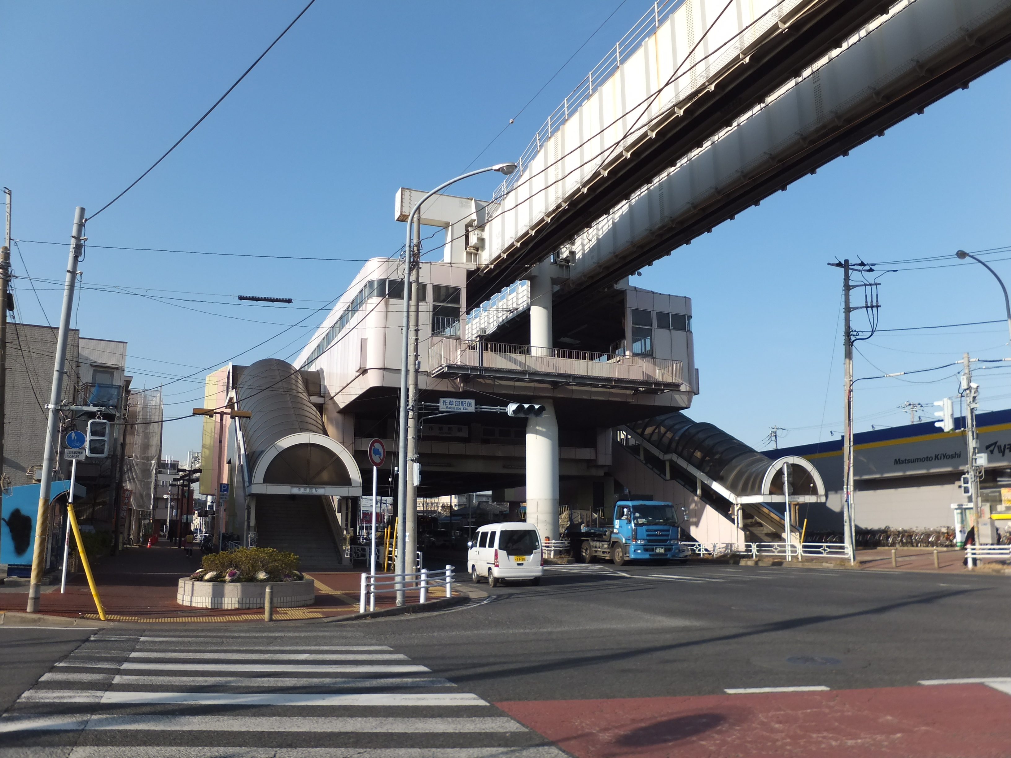 Sakusabe Station on Chiba Urban Monorail Line 2 in Inague ward, Chiba city, Japan.